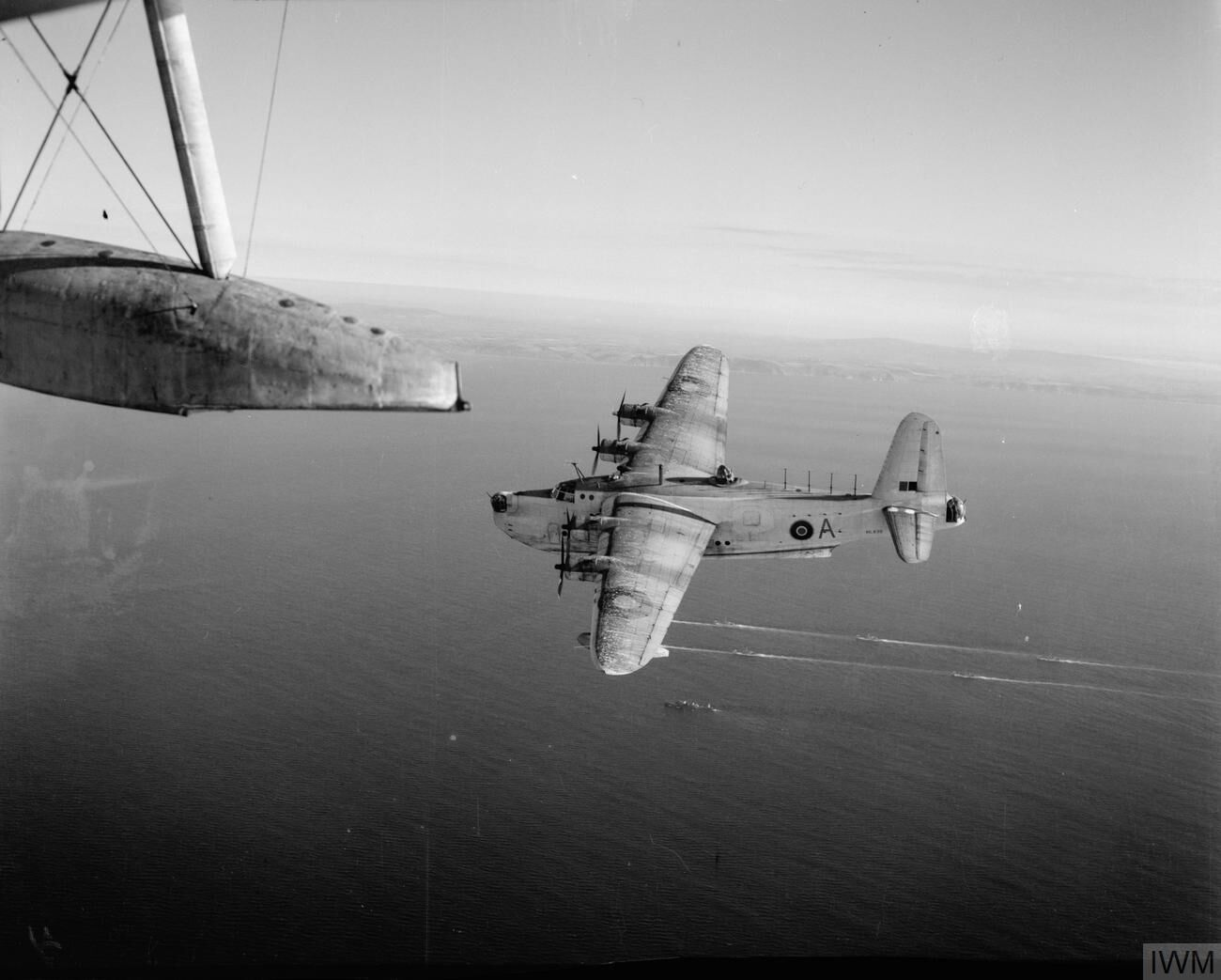 Aircraft of the Royal Air Force 1939-1945- Short S.25 Sunderland Sunderland Mark III/Mark V prototype conversion, ML839 ‘A’, of No. 10 Squadron RAAF based at Mount Batten, Devon, making a test flight off the South Coast. ML839 was refitted with Pratt & Whitney R-1830-90 Twin Wasps in place of its Bristol Pegasus XVIIIs by No.10 Squadron